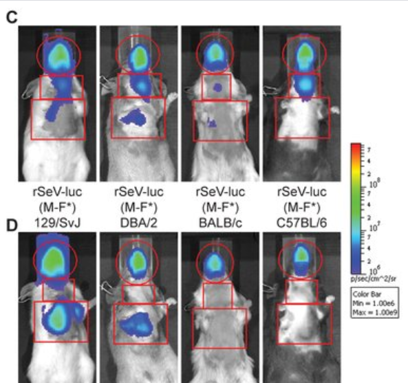 Eight-week-old mice were intranasally inoculated with 7,000 PFU of rSeV-luc(M-F*). Every 24 hours the mice were intraperitoneally injected with luciferin substrate, anesthetized with isoflurane, imaged with a Xenogen IVIS device, and then allowed to recover. Bioluminescence is shown on day 2 (C) or day 7 (D) for 129/SvJ, DBA/2, BALB/c, or C57BL/6 mice infected with rSeV-luc(M-F*). The data are displayed as radiance (bioluminescence intensity) on a rainbow log scale with a range of 1×106 (blue) to 1×109 (red) photons/s/cm2/steradian. Red circles indicate regions of interest (ROI) used to calculate the total flux (photons/s) in the nasopharynx, and red rectangles indicate the ROI areas for the trachea and lungs. show less